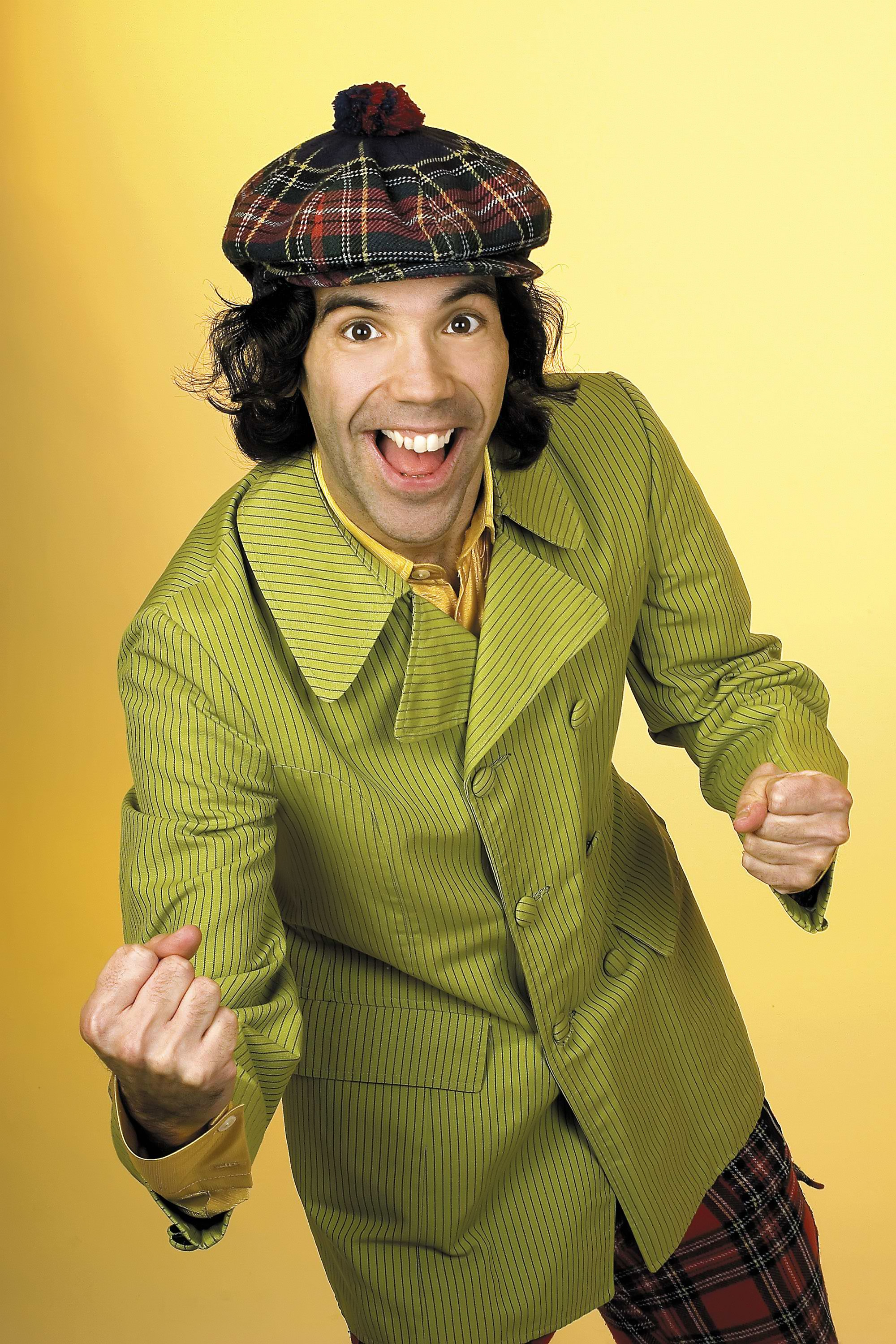 Free image of Nardwuar The Human Serviette